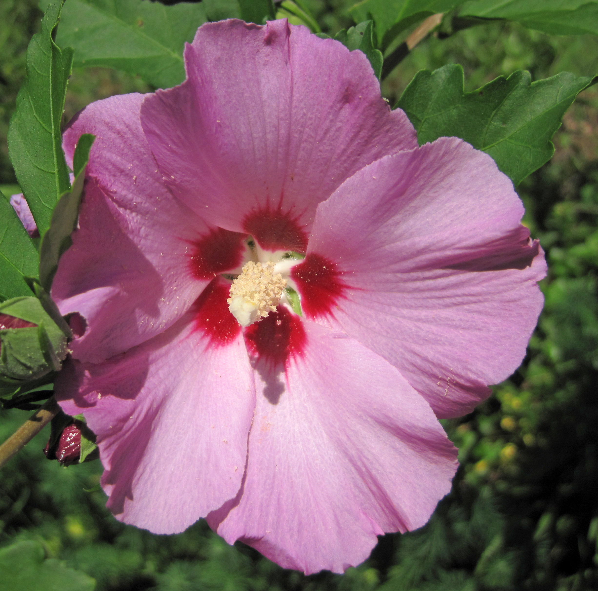 Hibiscus sp. - rose mallow in Ohio, USA. (10 July 2018) Plants are multicellular, photosynthesizing eucaryotes. Most species occupy terrestrial environments, but they also occur in freshwater and saltwater aquatic environments. The oldest known land plants in the fossil record are Ordovician to Silurian. Land plant body fossils are known in Silurian sedimentary rocks - they are small and simple plants (e.g., Cooksonia). Fossil root traces in paleosol horizons are known in the Ordovician. During the Devonian, the first trees and forests appeared. Earth's initial forestation event occurred during the Middle to Late Paleozoic. Earth's continents have been partly to mostly covered with forests ever since the Late Devonian. Occasional mass extinction events temporarily removed much of Earth's plant ecosystems - this occurred at the Permian-Triassic boundary (251 million years ago) and the Cretaceous-Tertiary boundary (65 million years ago). The most conspicuous group of living plants is the angiosperms, the flowering plants. They first unambiguously appeared in the fossil record during the Cretaceous. They quickly dominated Earth's terrestrial ecosystems, and have dominated ever since. This domination was due to the evolutionary success of flowers, which are structures that greatly aid angiosperm reproduction. Classification: Plantae, Angiospermophyta, Malvales, Malvaceae Locality: cultivar in Newark, Ohio, USA See info. at: and